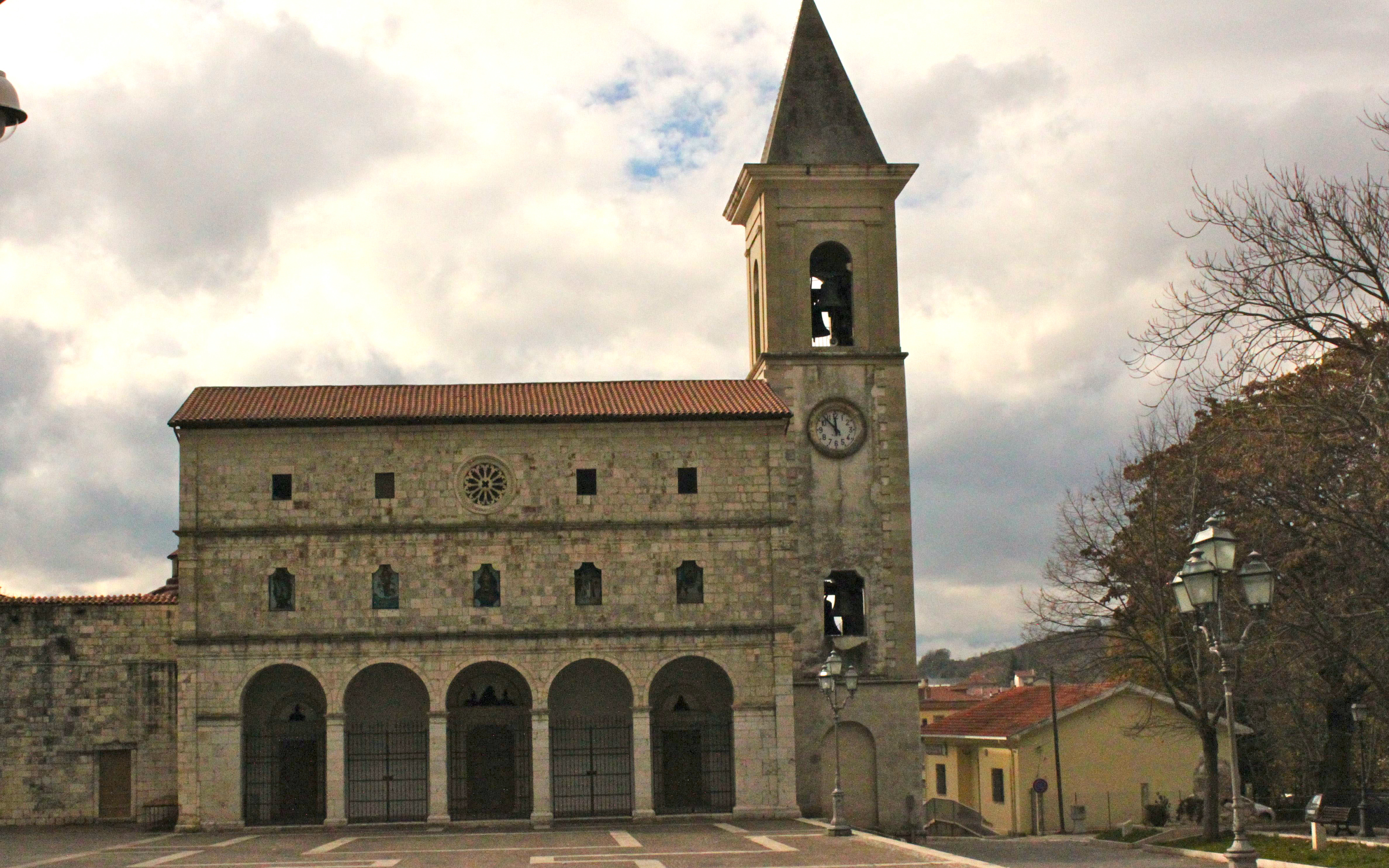 Santa Maria delle Grazie Basilica, Pescina, Abruzzo, Italy